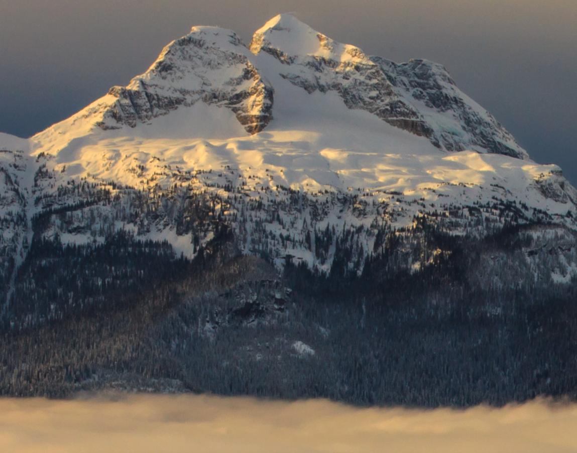 Mount Begbie seen from Mt Revelstoke ski area